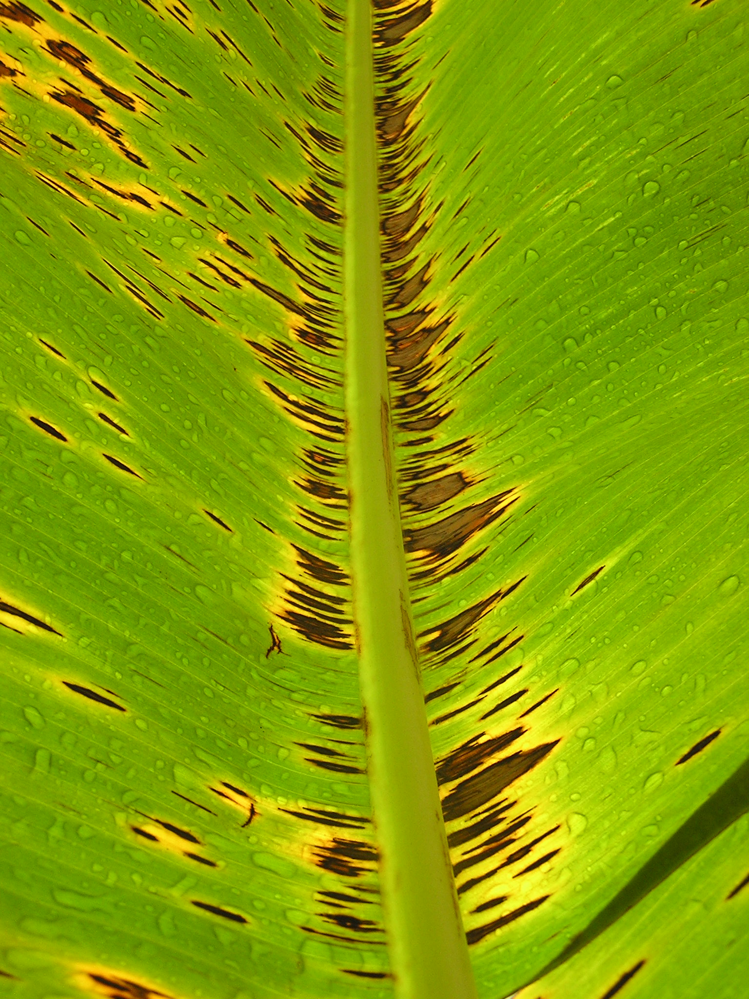 Black Sigatoka leaf lesions Banana black leaf streak, caused by Mycosphaerella fijiensis Read: pdf